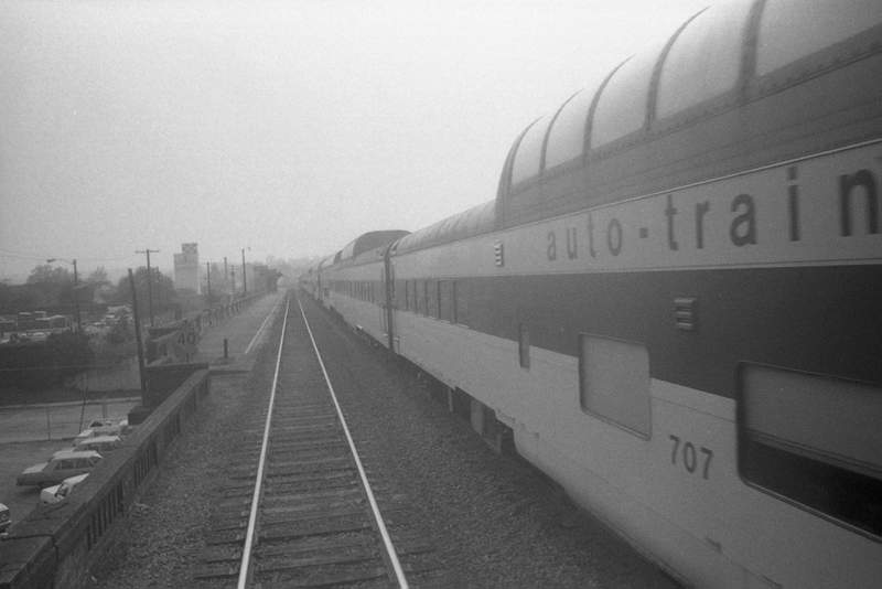 The southbound Auto Train with Astra Dome cars viewed from the rear of the northbound Silver Star at Fredericksburg, Virginia, circa 1978